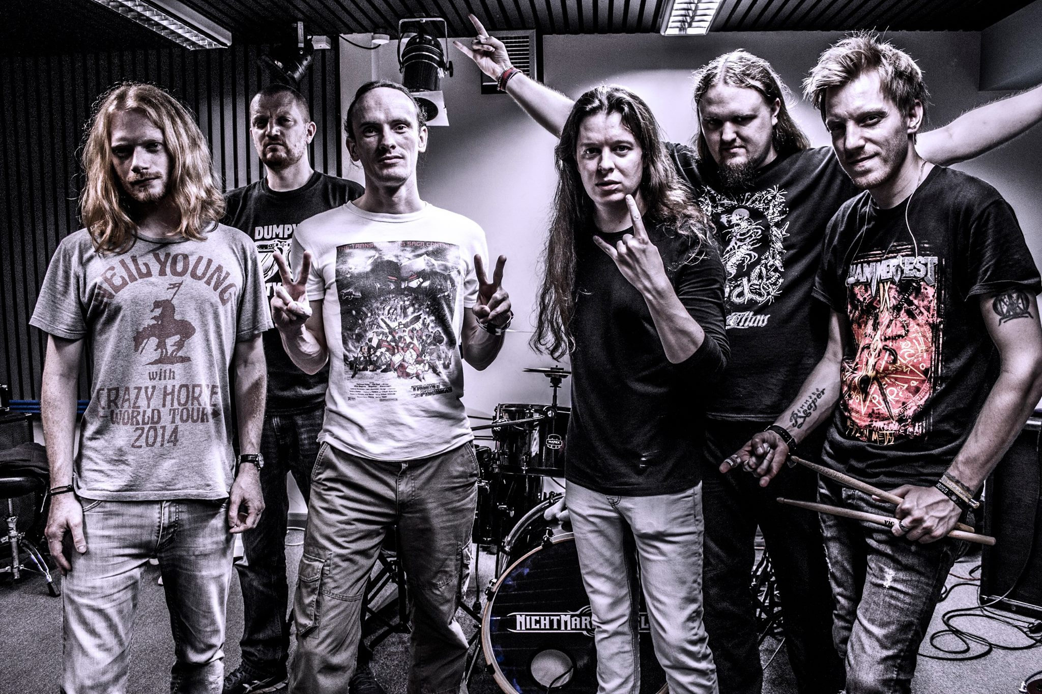 Photograph of the Power Metal band NightMare World taken during a rehearsal session at Neon Sound Studios in Burntwood, UK.